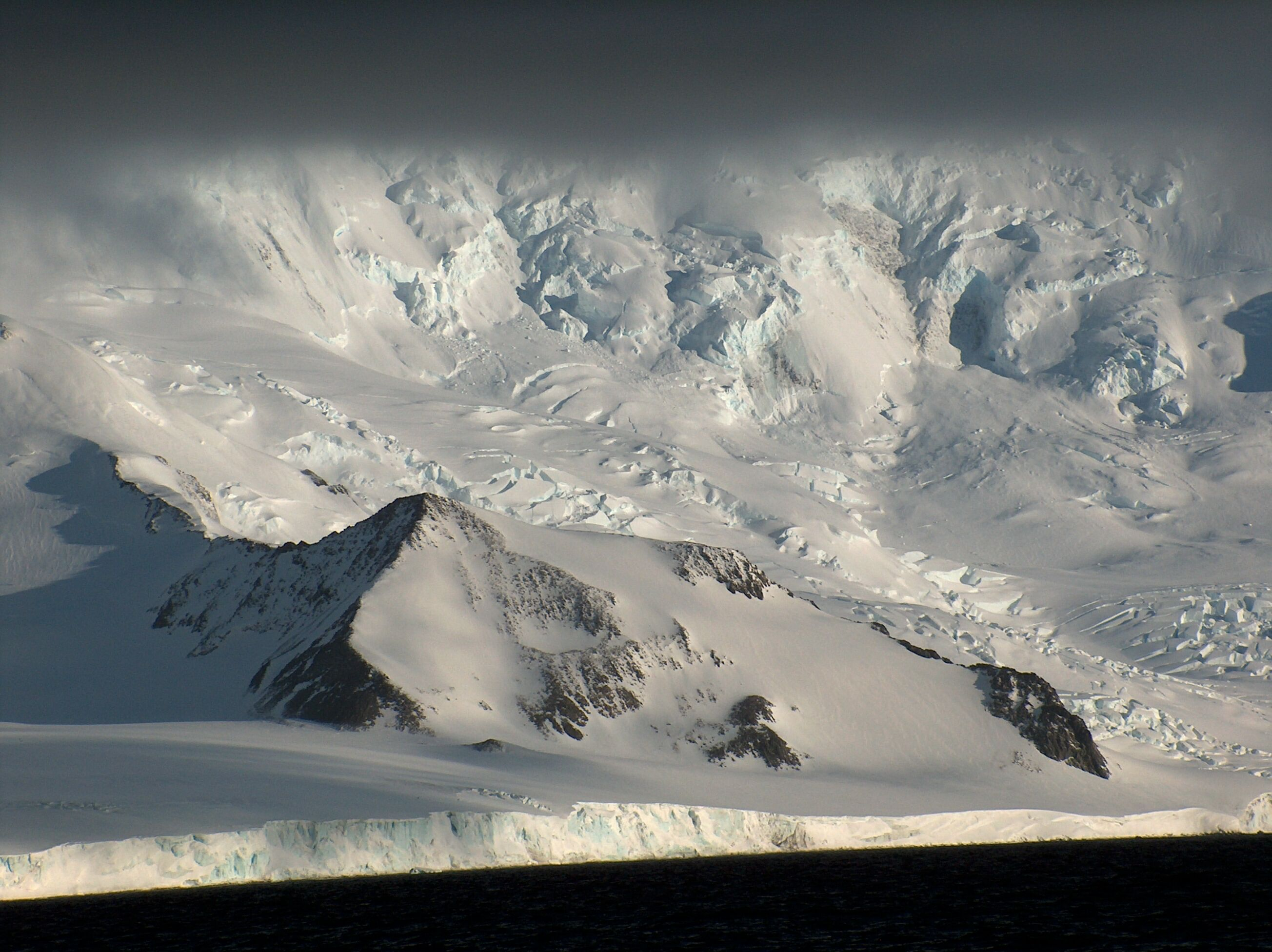 source-Lyubomir Ivanov